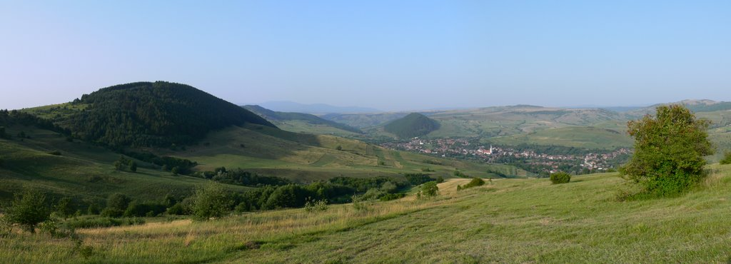 Mereşti and Nagy Mal hill